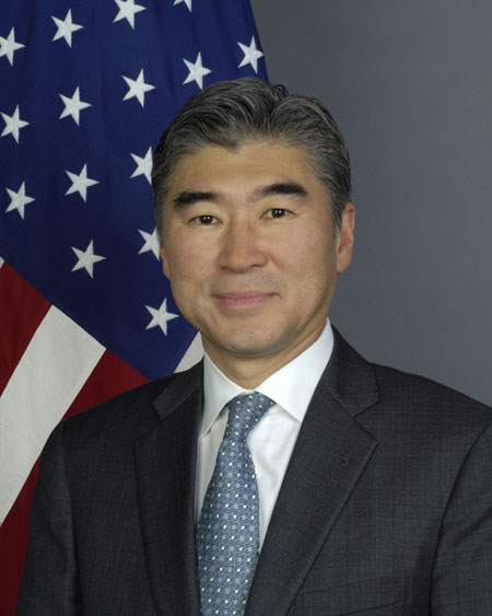 United States Ambassador to South Korea, Mr. Sung Kim